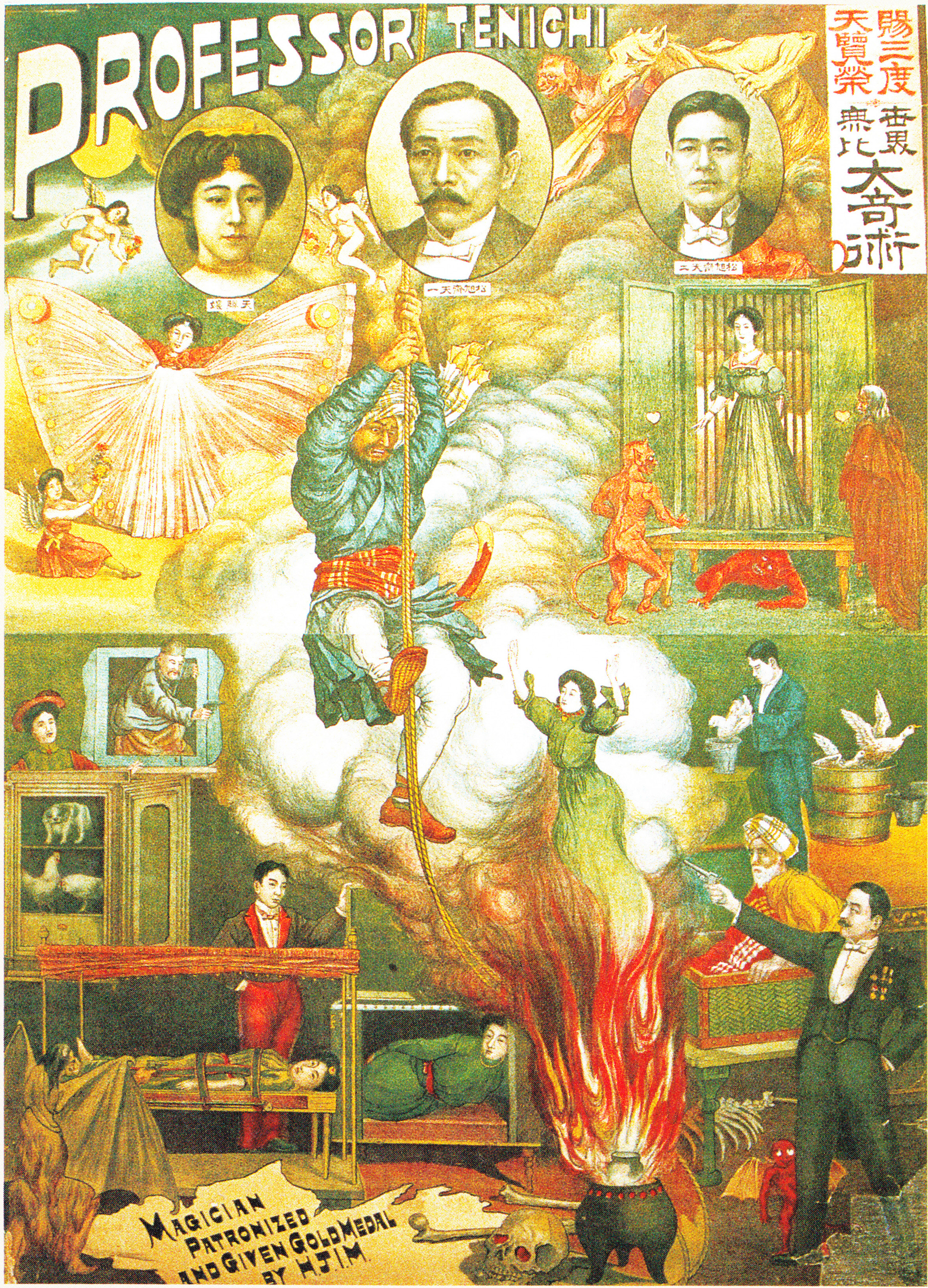 Poster for a 1908 performance by Japanese magician Shokyokusai Tenichi and company